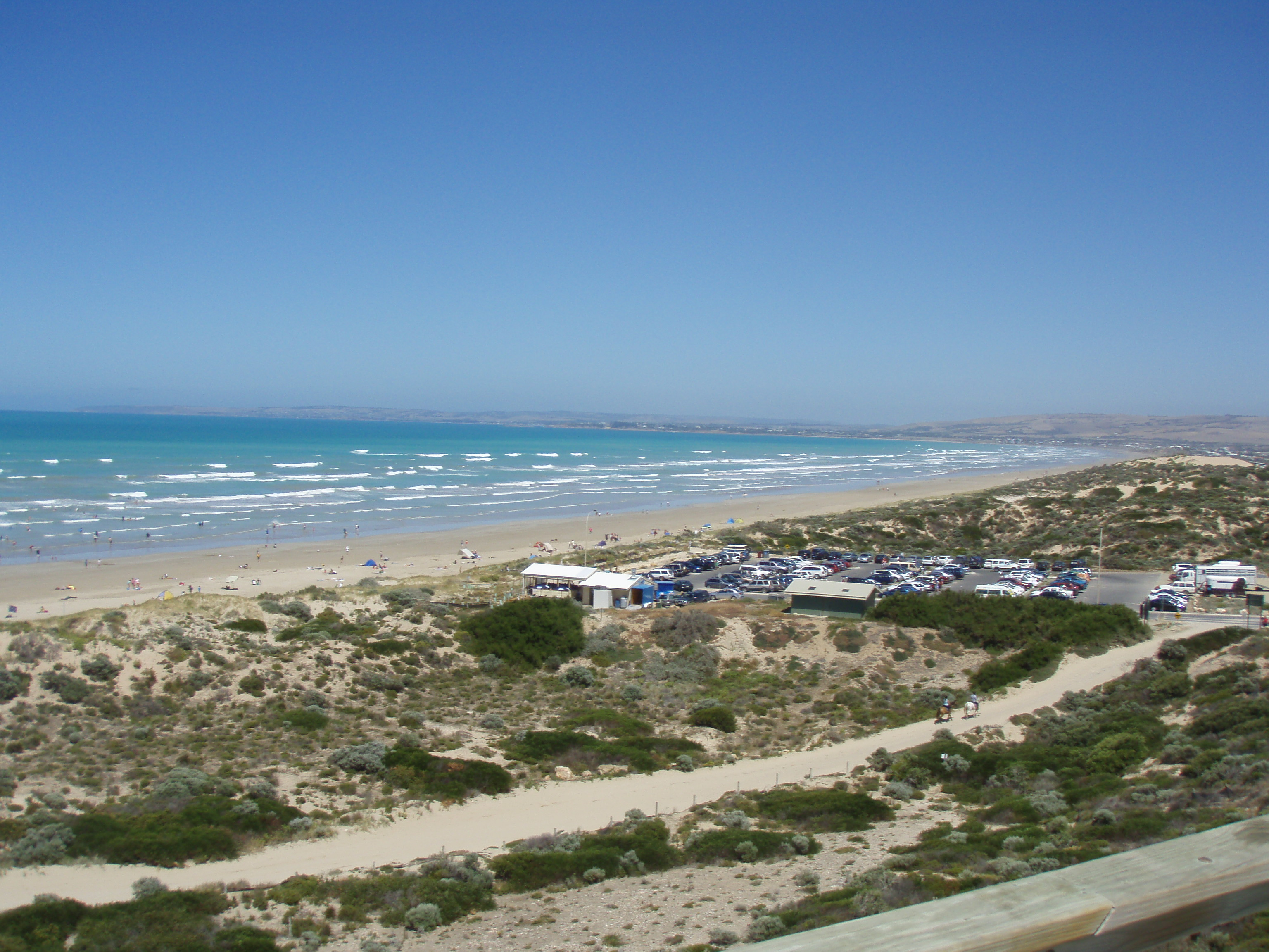 A view of Goolwa beach in South Australia. (December 2009)